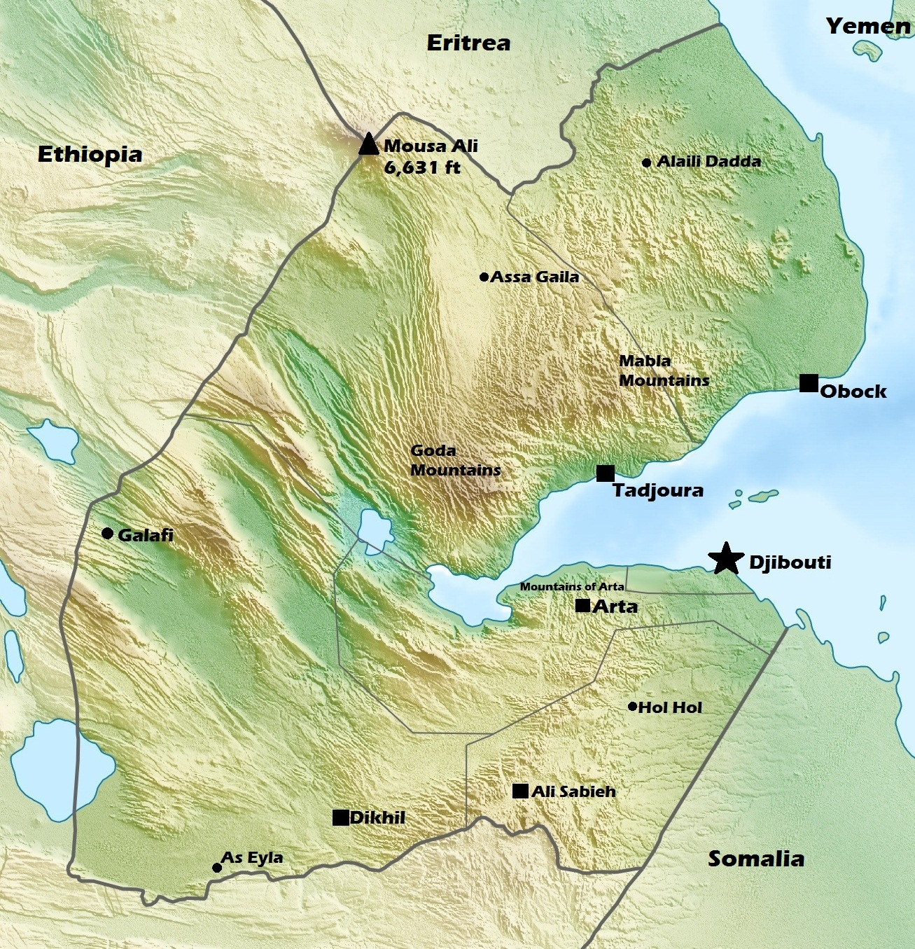 DjiboutiGeographymap